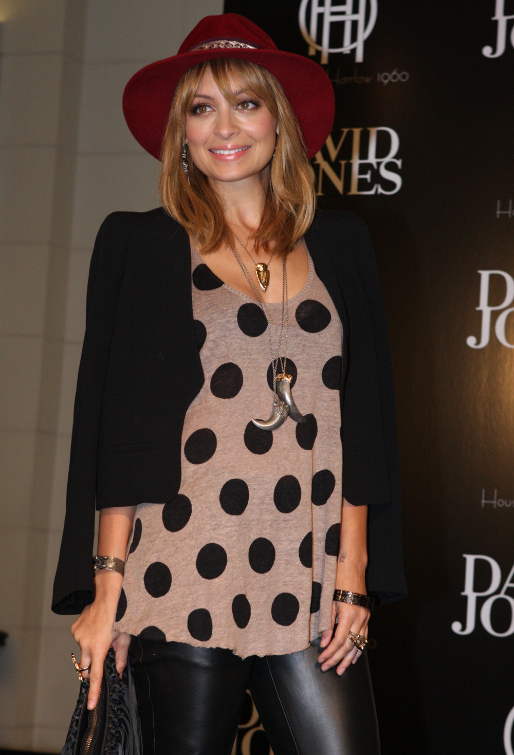 Nicole Richie In Store Appearance David Jones Photo Call 2012.